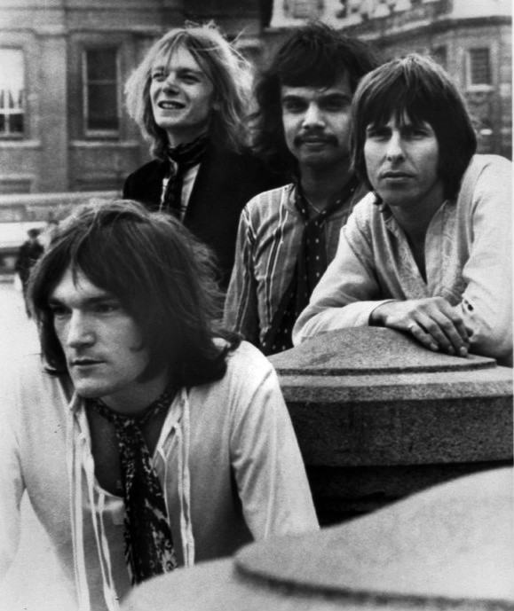 Publicity photo of the musical group Brian Auger and the Trinity.